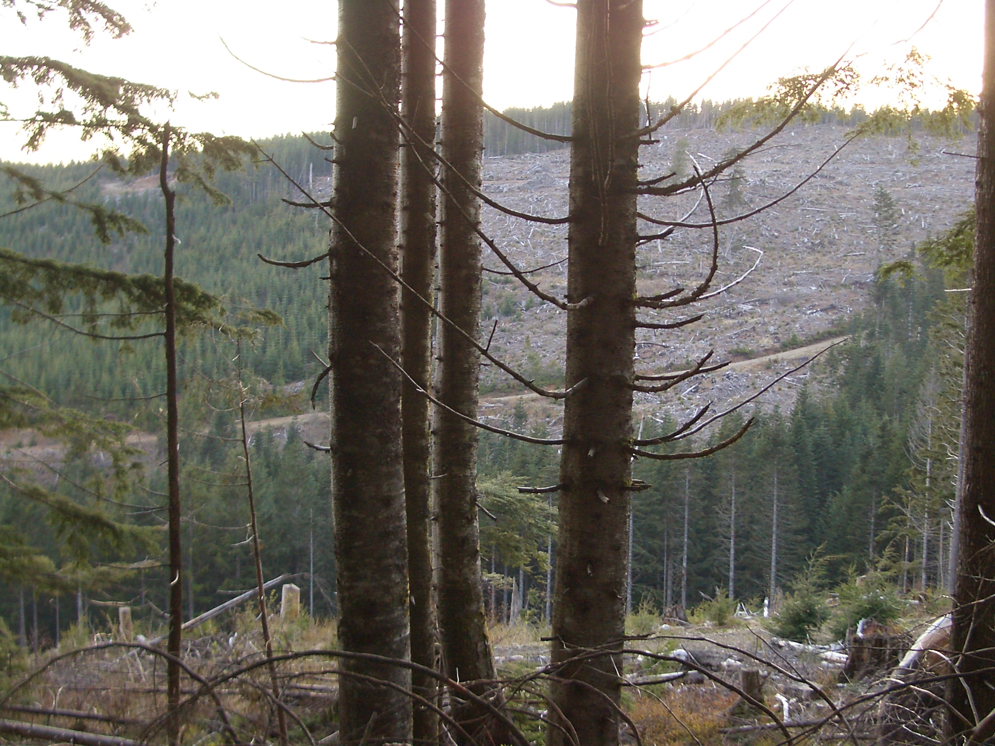 A logged area in the south-central part of Rattlesnake Ridge (not far from the group of 2+3=5 radio towers)